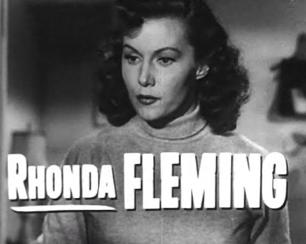 Cropped screenshot of Rhonda Fleming from the trailer for the film Cry Danger (1951).